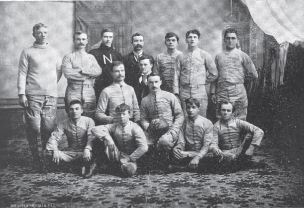 Photograph of 1892 Michigan State Normal (now Eastern Michigan University) football team